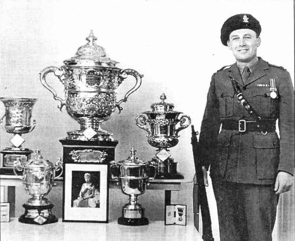 Championship British rifle marksman Richard "Dick" Martyn Hill (1910-1998), who in 1949 and 1950 won the King's Medal at the Bisley Shooting Centre